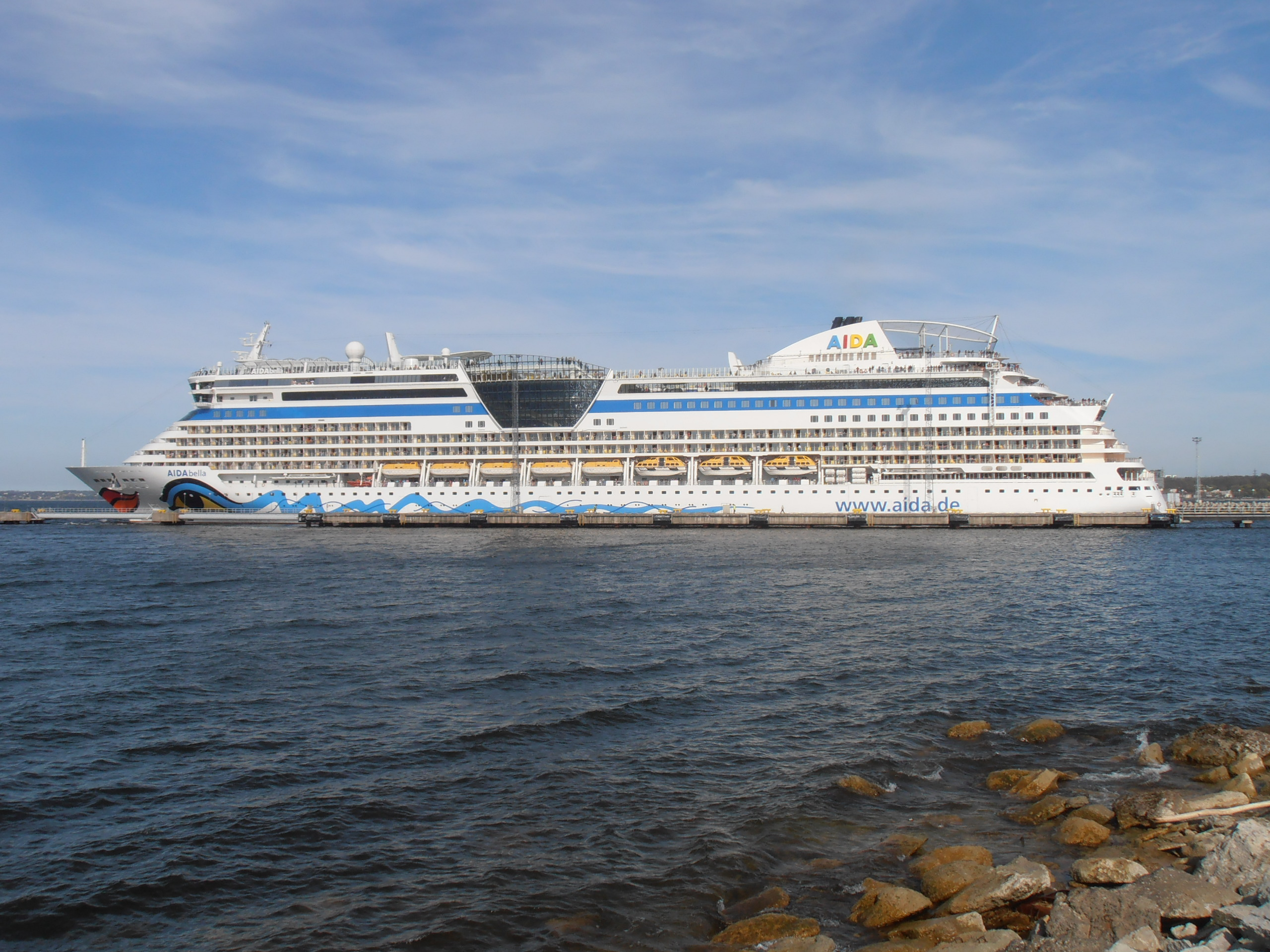 AIDAbella Port Side Tallinn 16 May 2013